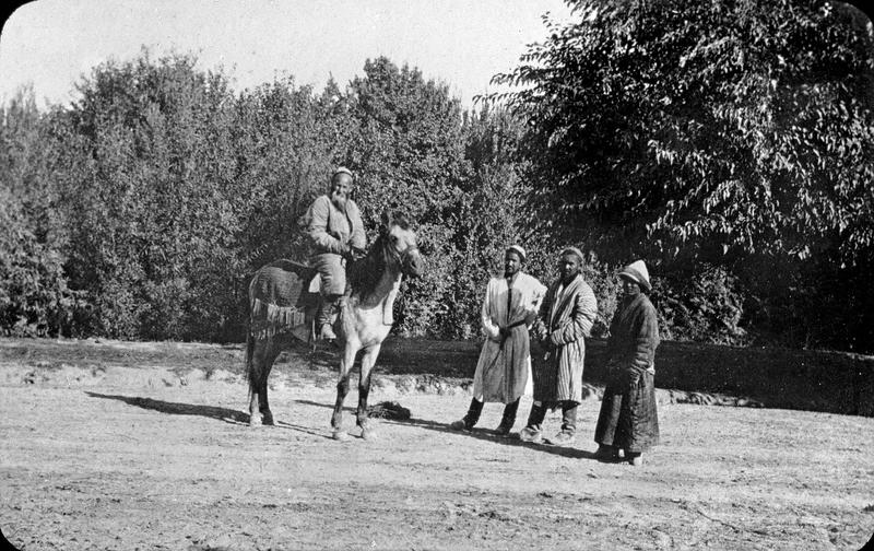 Жители Чиназа 1890 г.